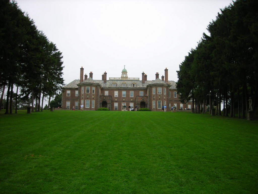 Castle Hill, estate of the Crane family, located in Ipswich, Massachusetts. The former summer home of Mr. and Mrs. Richard T. Crane, Jr., the estate includes a historic mansion, 21 outbuildings, and designed landscapes overlooking Ipswich Bay, on the seacoast off Route 1, north of Boston. Its name derives from a promontory in Ipswich, Suffolk, England, whence many early Massachusetts Bay Colony settlers immigrated, and predates the Crane mansion.